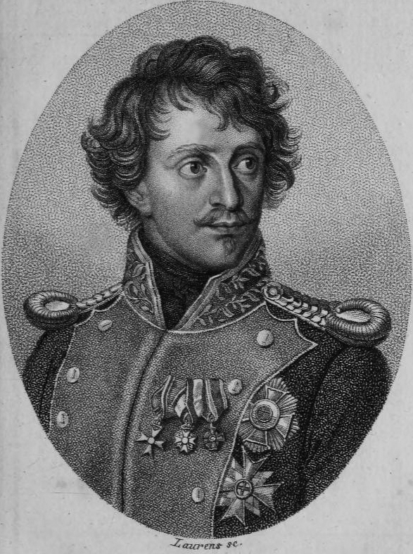 Ludwig I of Bavaria portrayed for "Almanach of Gotha"